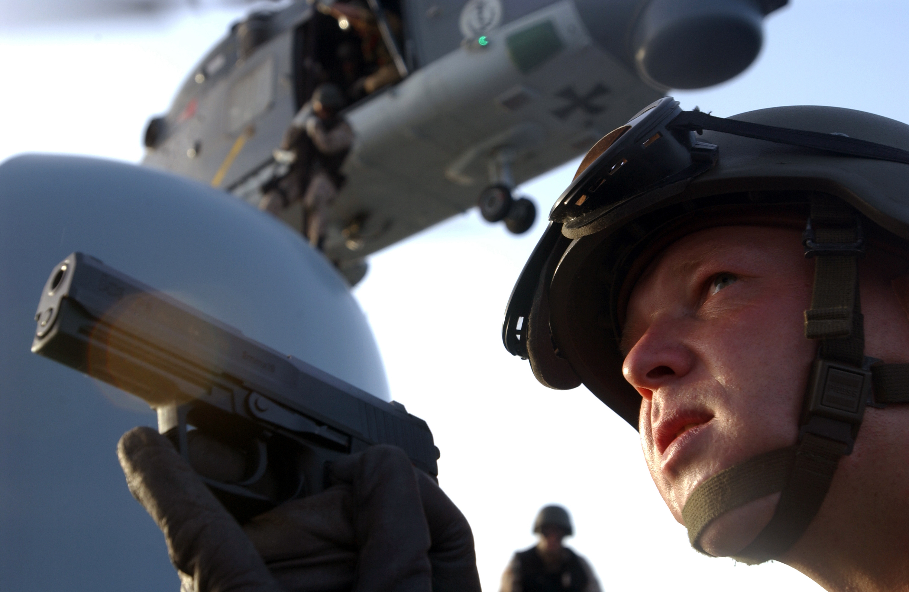 A Boarding Team member assigned to the German Frigate FGS Augsburg (F213) provides security for the remainder of his team as they board a local cargo dhow by fast rope to conduct a search of the vessel. The multinational Combined Task Force One Five Zero (CTF-150) was established to monitor, inspect, board, and stop suspect shipping to pursue the war on terrorism and includes operations currently taking place in the North Arabia Sea to support Operation Iraqi Freedom. Countries contributing to CTF-150 currently include Australia, Canada, France, Germany, Italy, Pakistan, New Zealand, Spain, United Kingdom and the United States.